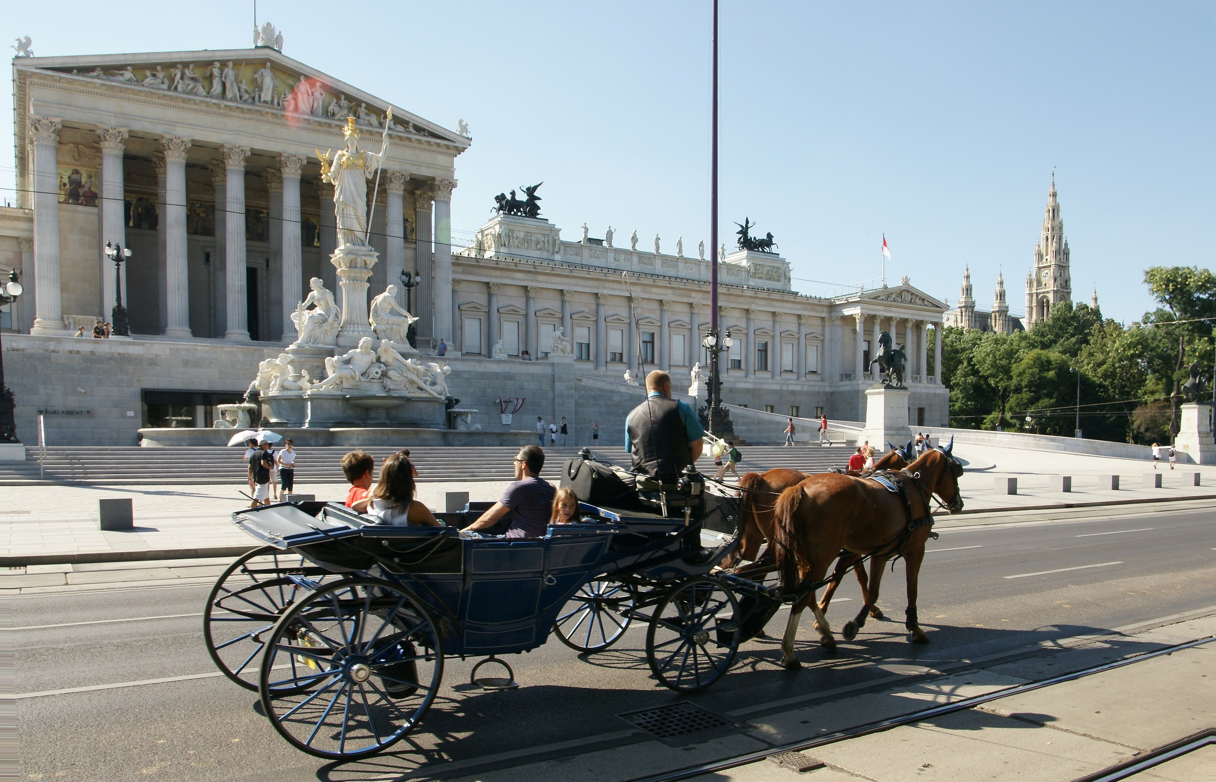 Austria, Vienna, Austrian Parliament Building